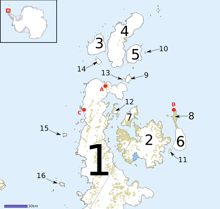 Islands near the north end of the Antarctic Peninsula